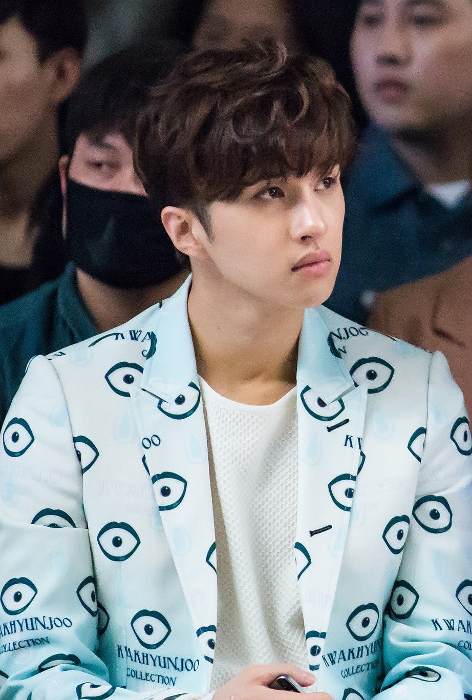 Ken at Seoul Fashion Week, on March 22 2015.